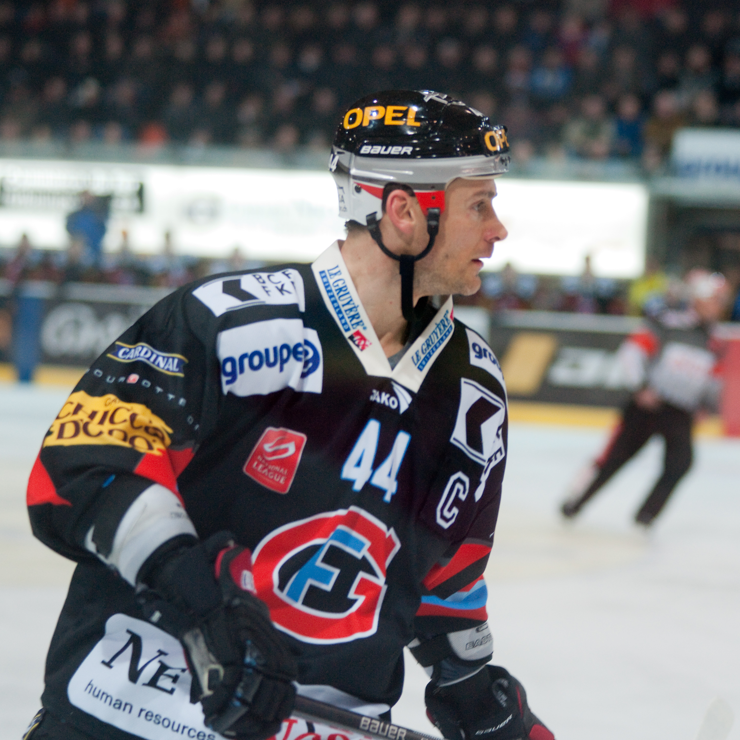 Shawn Heins, Fribourg-Gottéron vs. Langnau Tigers, 15th January 2010.